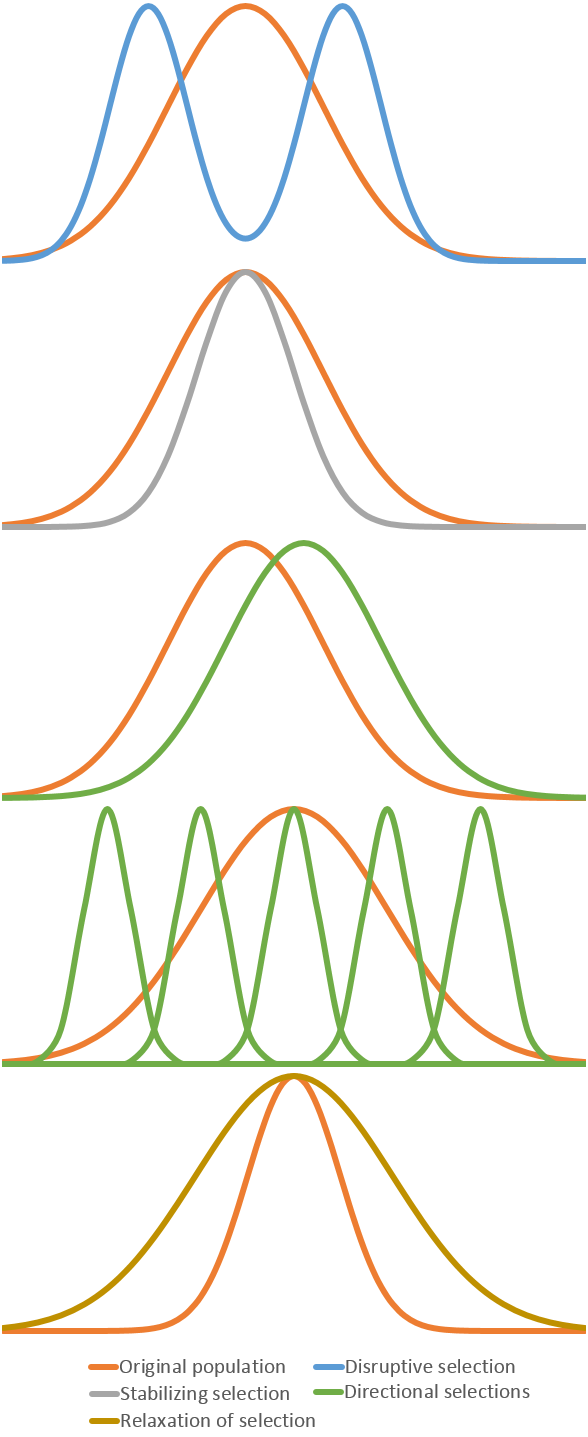 All selections: Original population Disruptive selection Stabilizing selection Directional selection Multiple directional selections Relaxation of selection